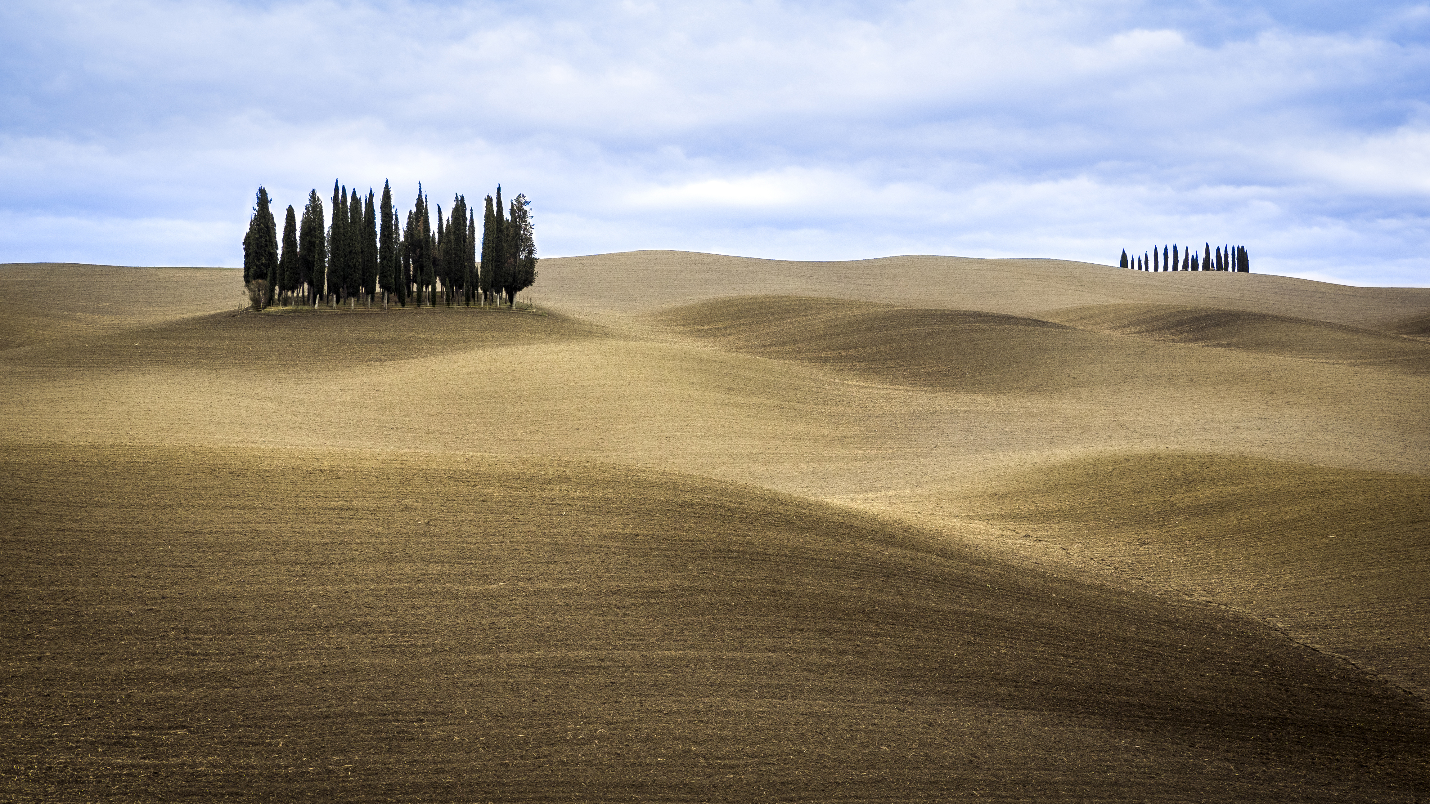 Cypresses on the gentle hills of San Quirico in Val d’Orcia (Tuscany), UNESCO World Heritage Sites since 2014. This is a photo of a monument which is part of cultural heritage of Italy.